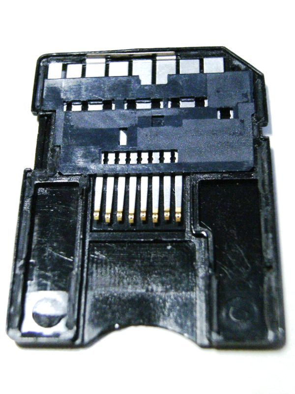 A dismantled SD-microSD adaptor